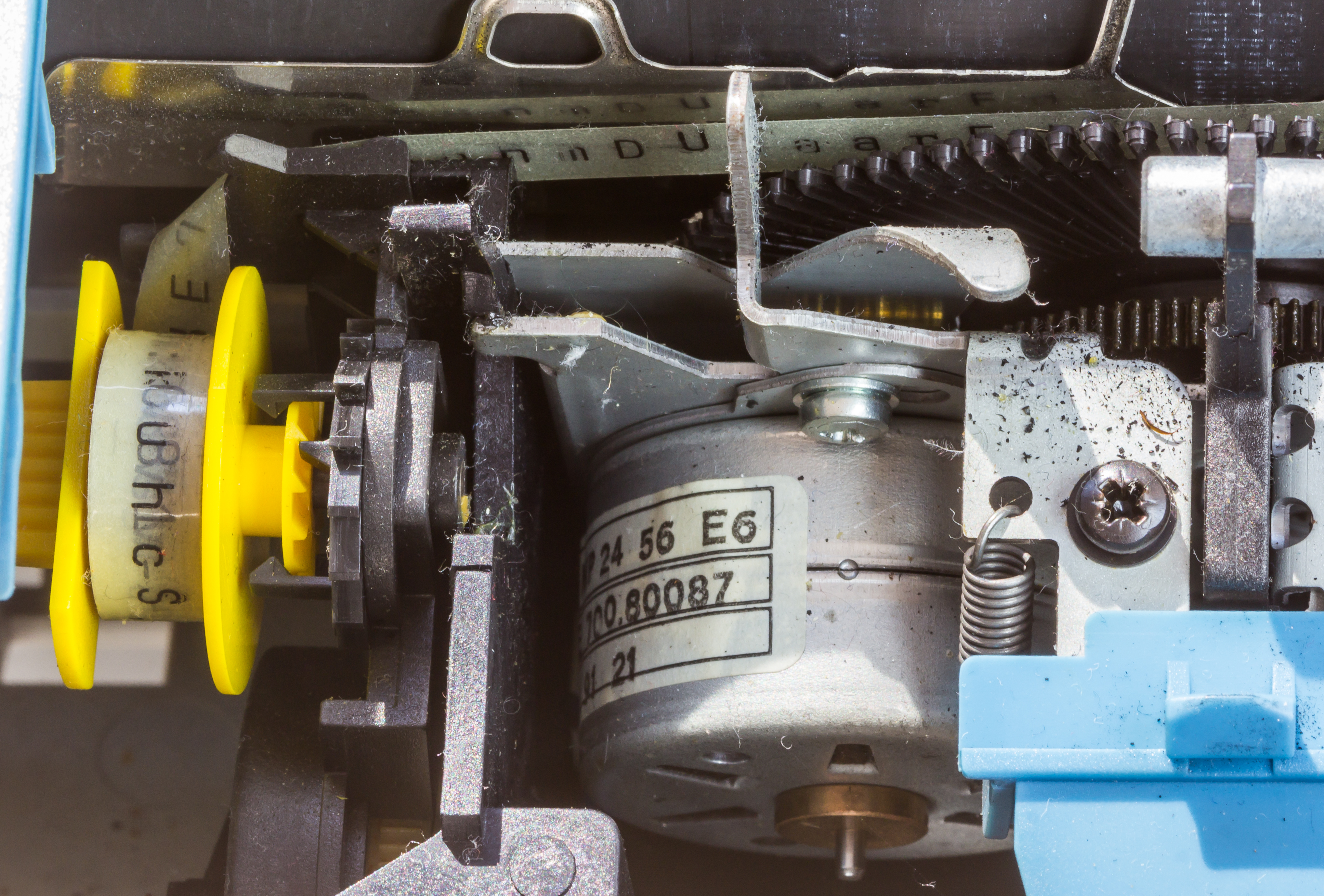 Typewriter Triumph-Adler Gabriele 100 DS